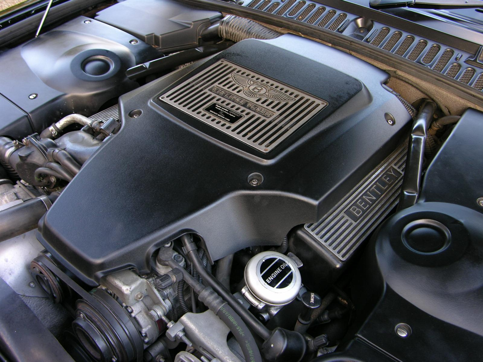 2001 Bentley Arnage Red Label